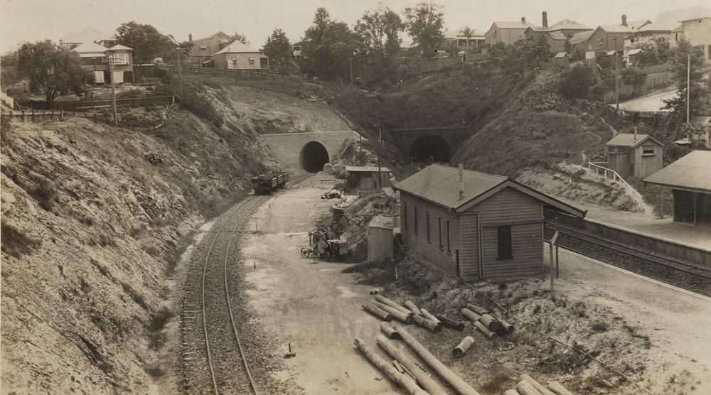 Gloucester Street Railway Station in suburban Brisbane was closed in 1978